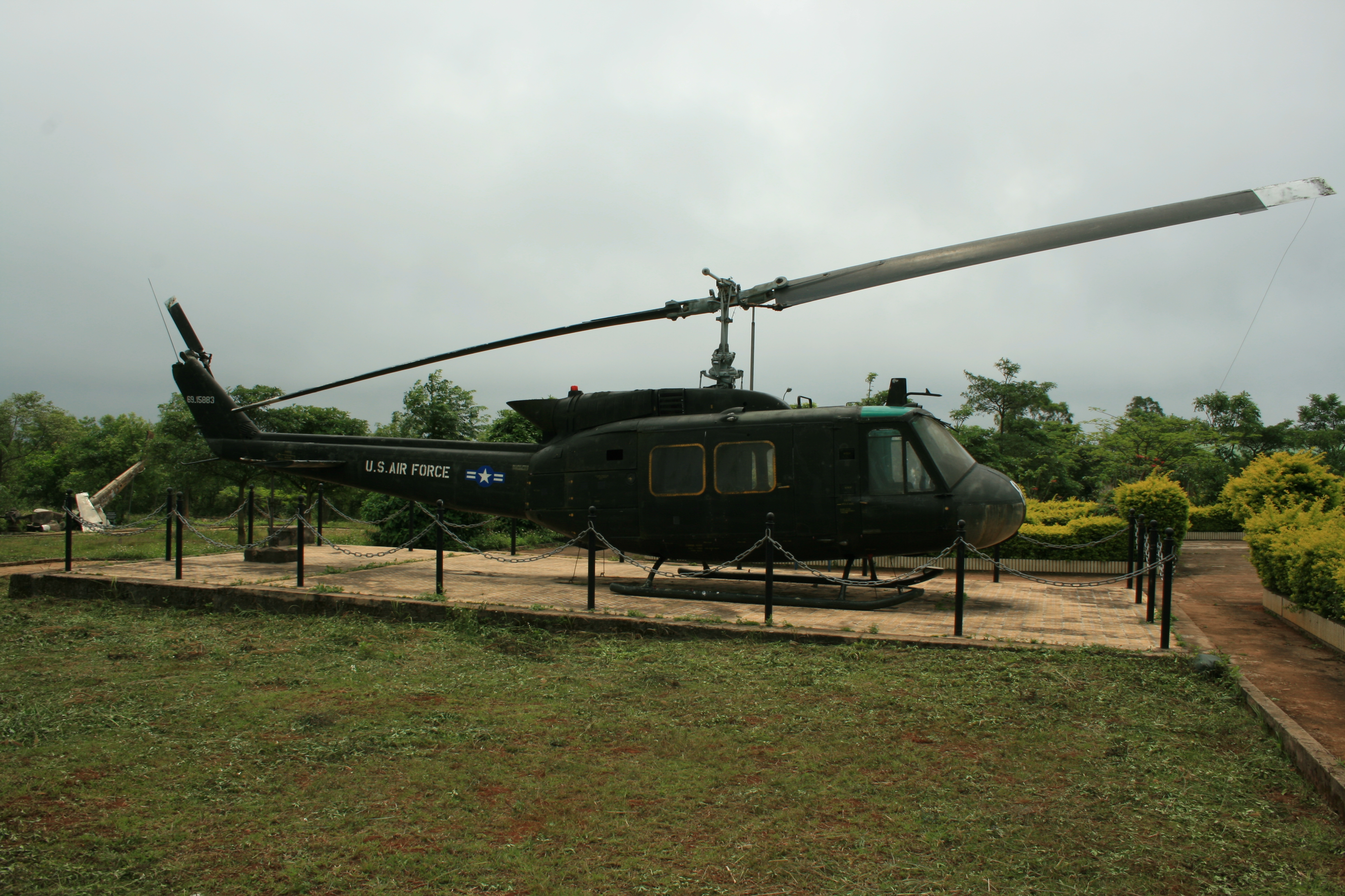 A Bell UH-1H-BF Iroquois helicopter (s/n 69-15883) at Khe Sanh combat base museum, Vietnam. Note that the markings, as on most aircraft on display in Vietnam, are not historically correct.